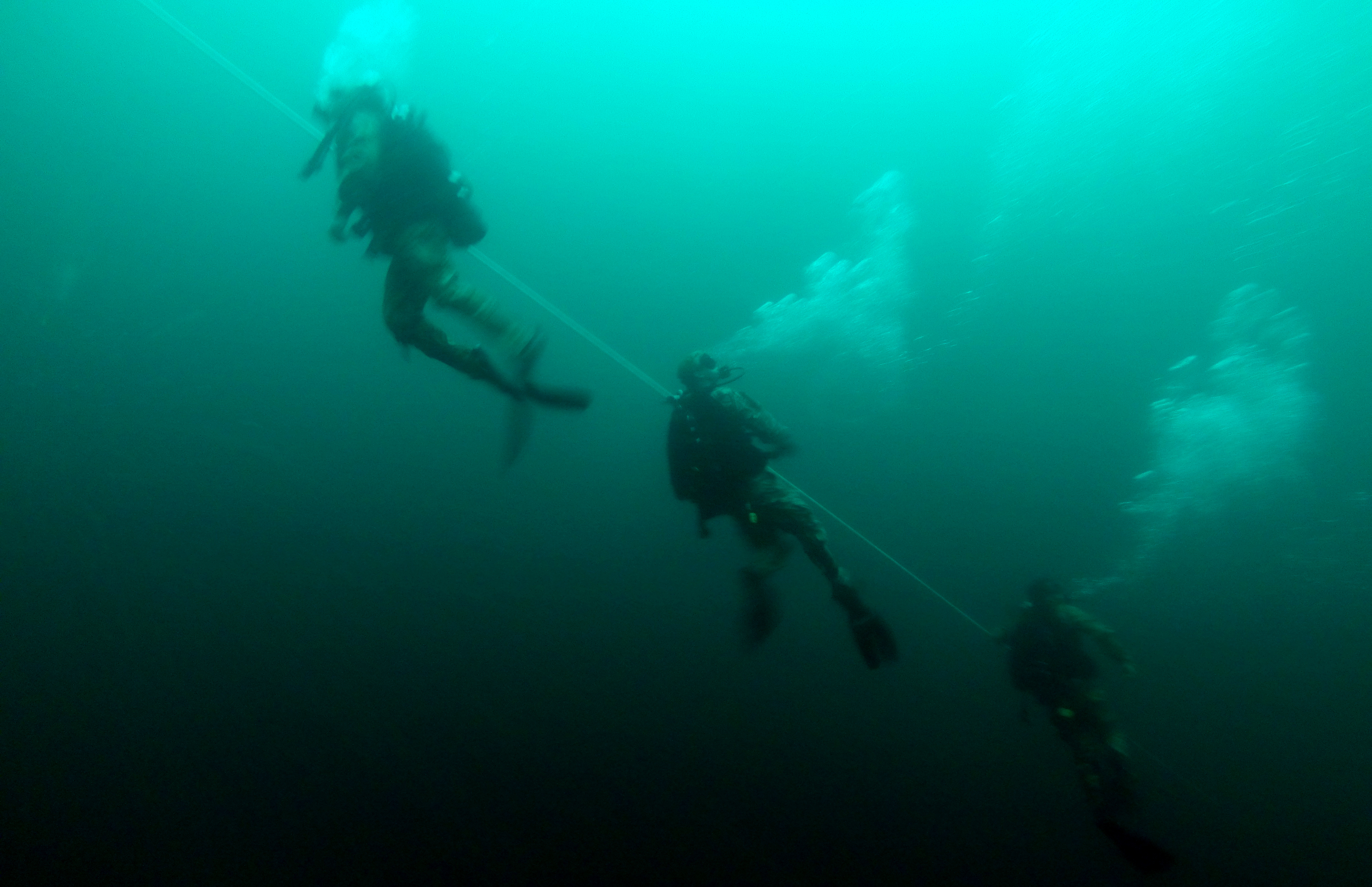 Army National Guard Special Forces Combat Divers assigned to 20th Special Forces Group (Airborne) perform a controlled ascent during a deep dive off the coast of Naval Station Mayport, Fla., April 27, 2015. The divers were required to reach a minimum depth of 70 feet in order to complete a requirement to maintain their operational dive status. (National Guard photo by Staff Sgt. Adam Fischman)